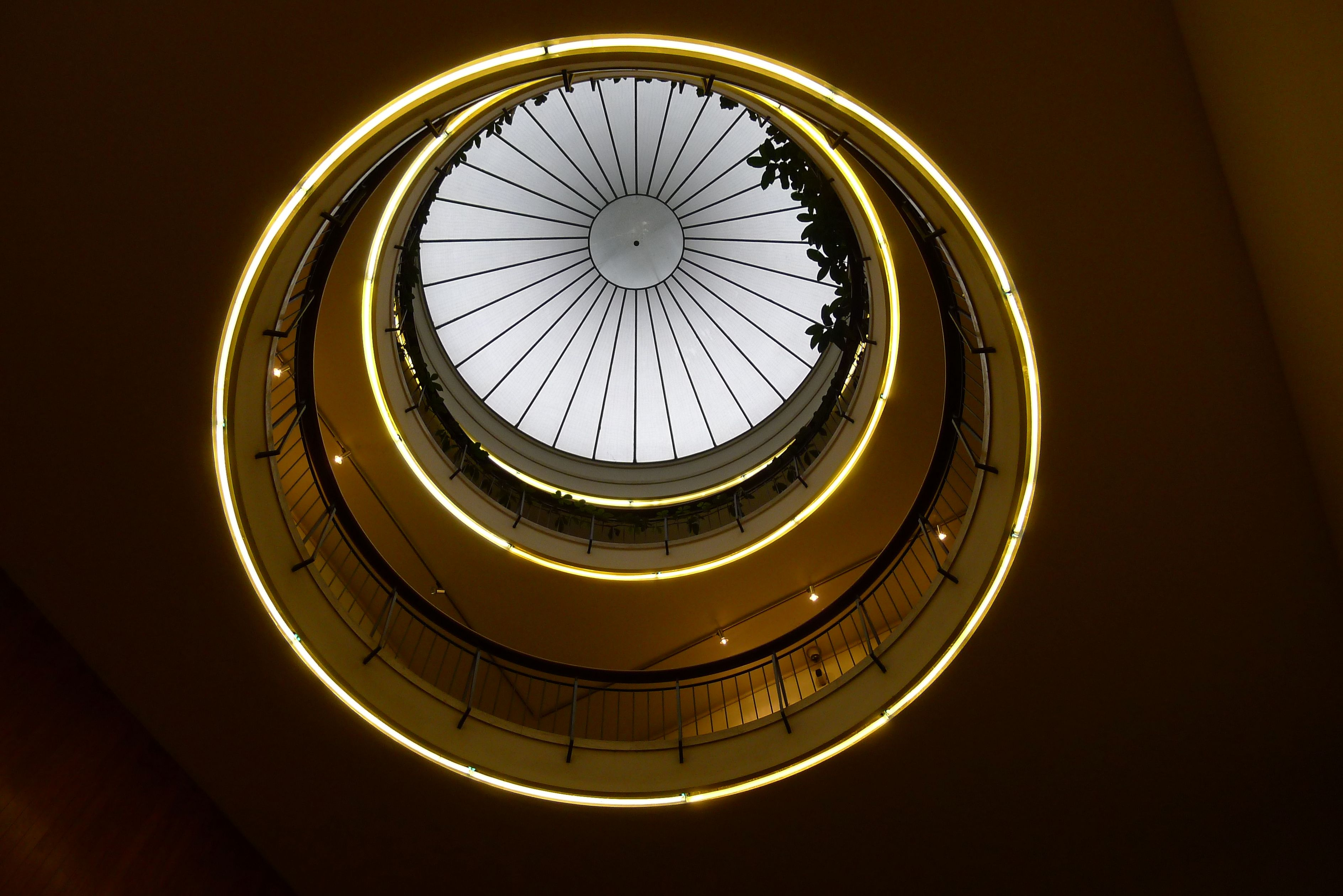 Glass dome inside the America House Munich